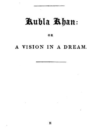 Titlepage of Kubla Khan.